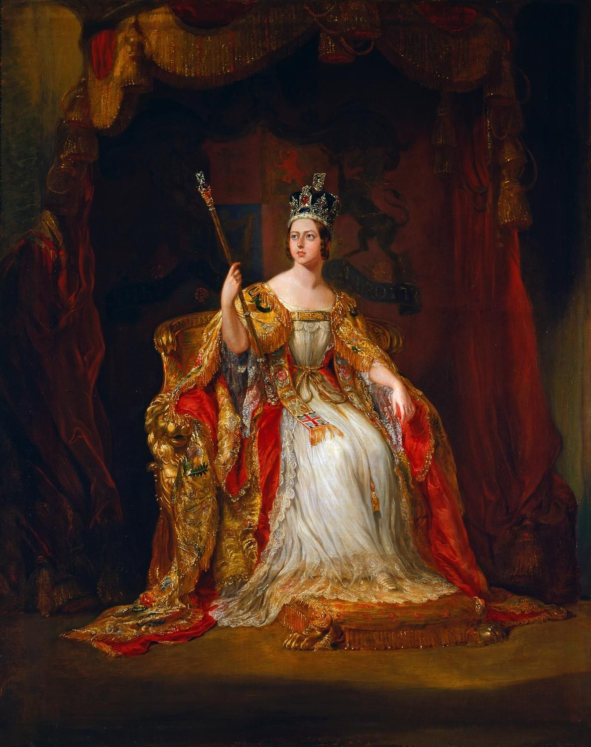 The primary version of Hayter's state portrait of the Coronation of Queen Victoria.